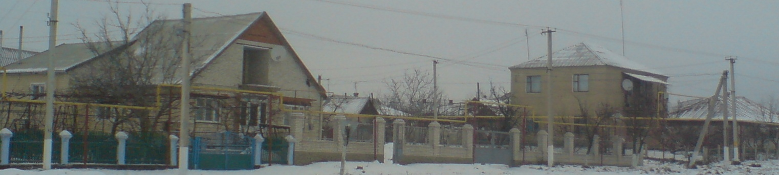 Poshtovyu, Zatyshshia